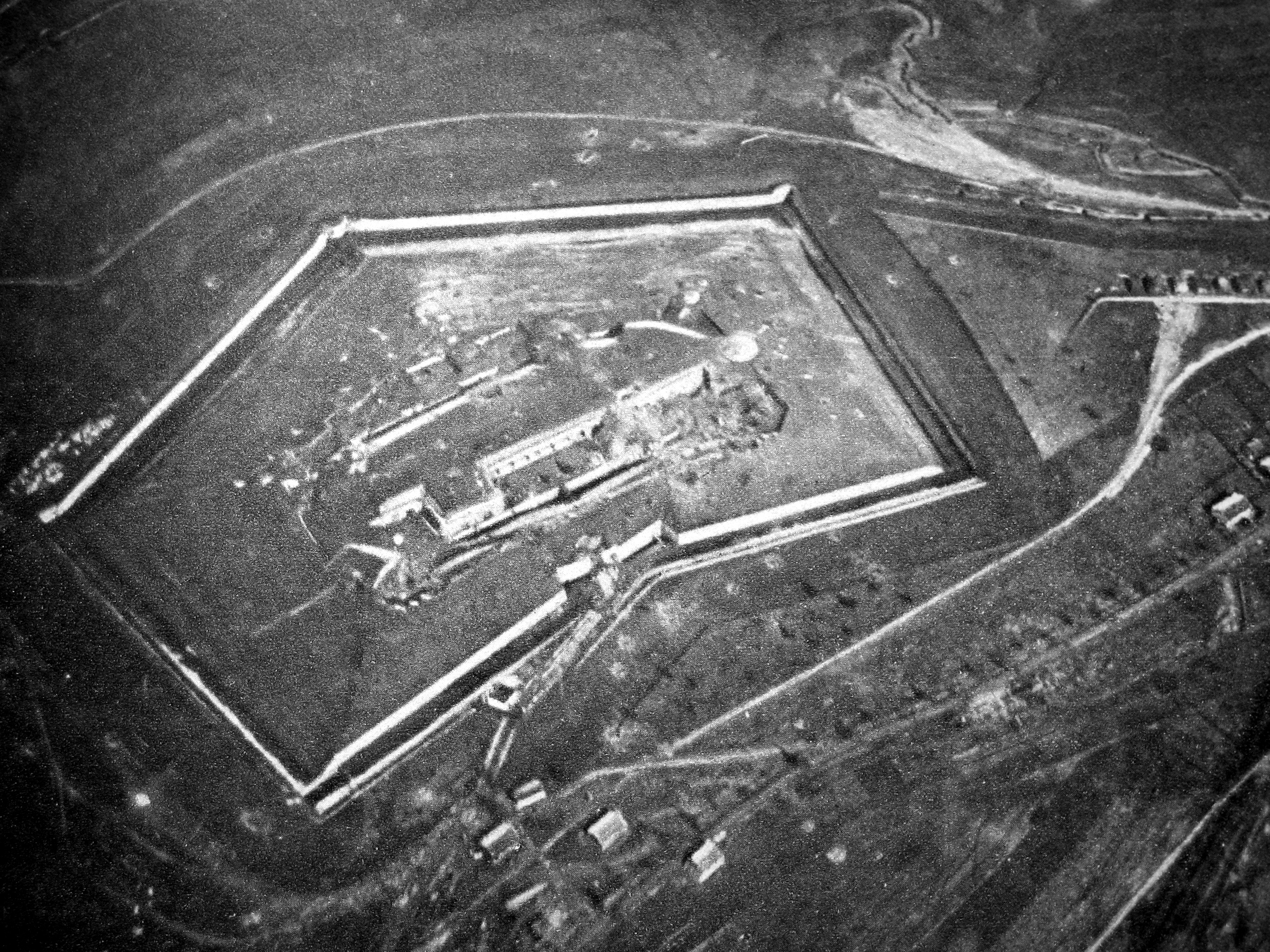 Douaumont Fort nearby Verdun, France, aerial photography, 1916